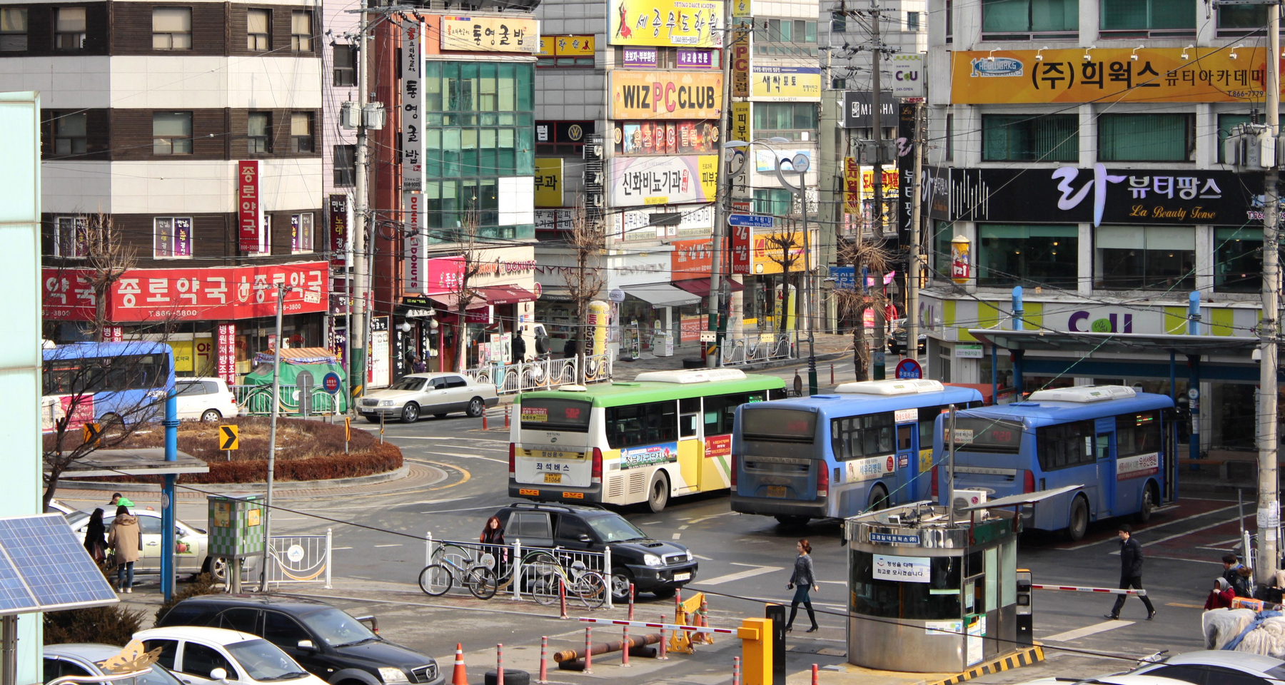 Jochiwon Station, Sejong, South Korea.